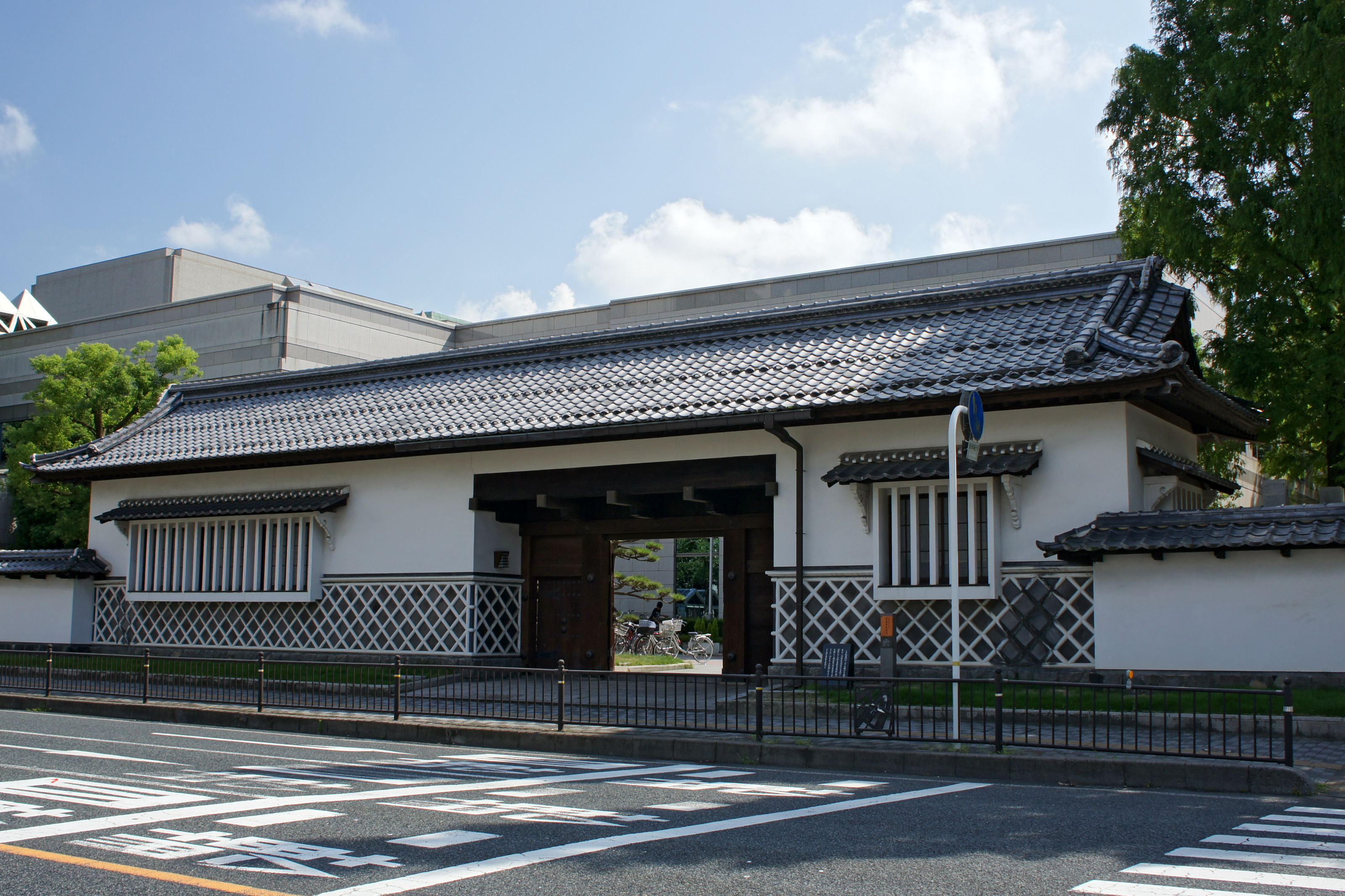 Minourake-bukemon in Tottori, Tottori prefecture, Japan.